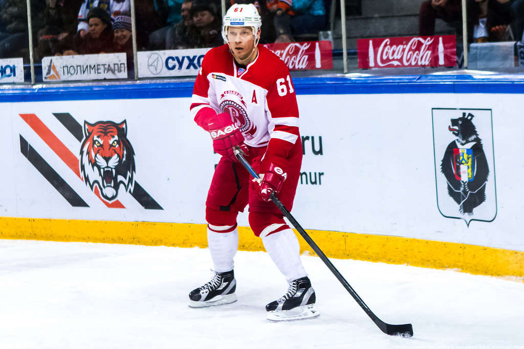 HC Vityaz forward Maxim Afinogenov during KHL game against Amur Khabarovsk on January 31, 2016.